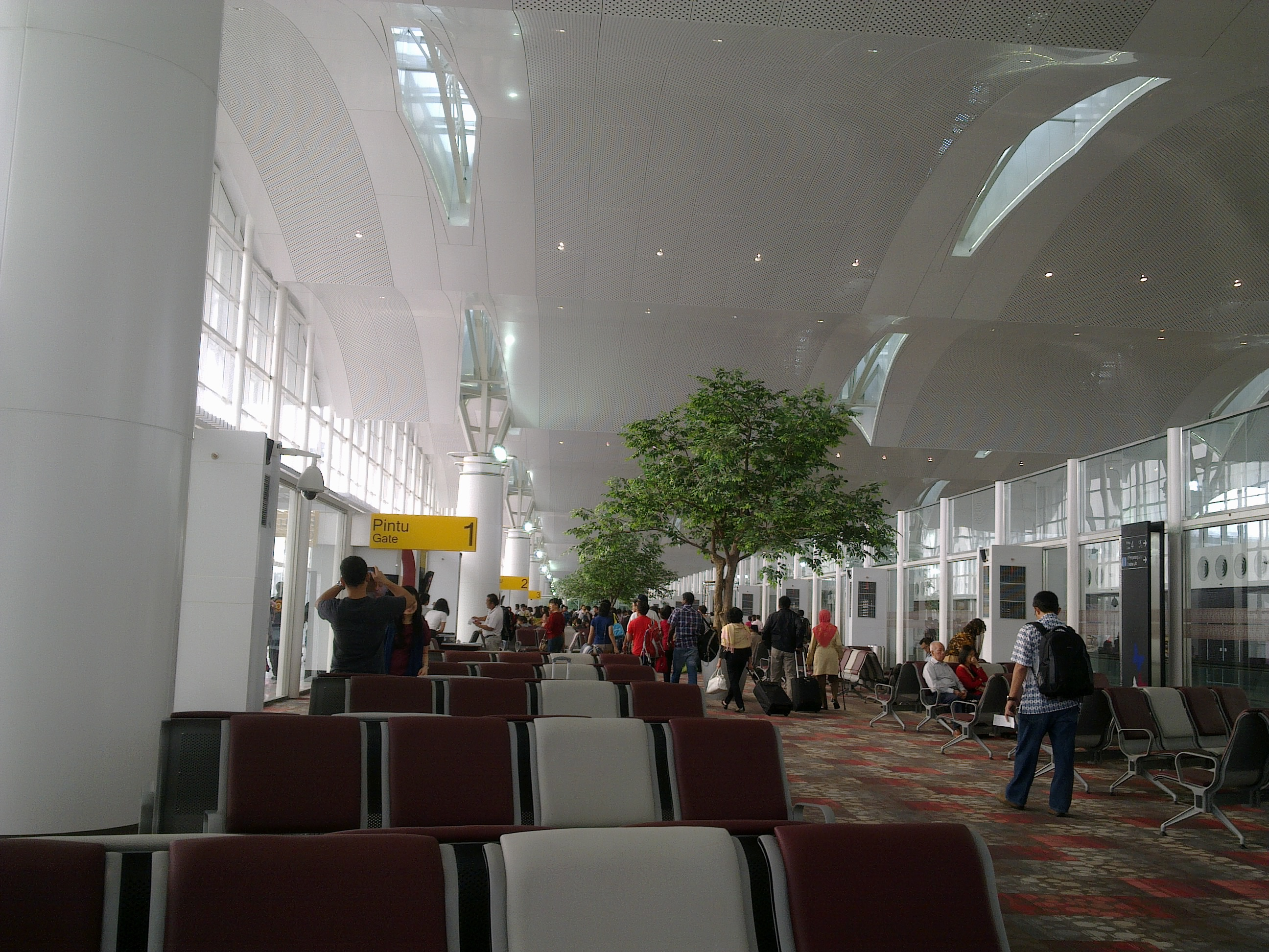 Kuala Namu International Airport waiting room interior